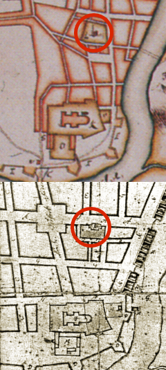 Section of city plans of Trondheim, Norway, before and after the great fire of 1681. Our Lady's church highlighted. Maps by A. Coucheron and J.C. de Cicignon.